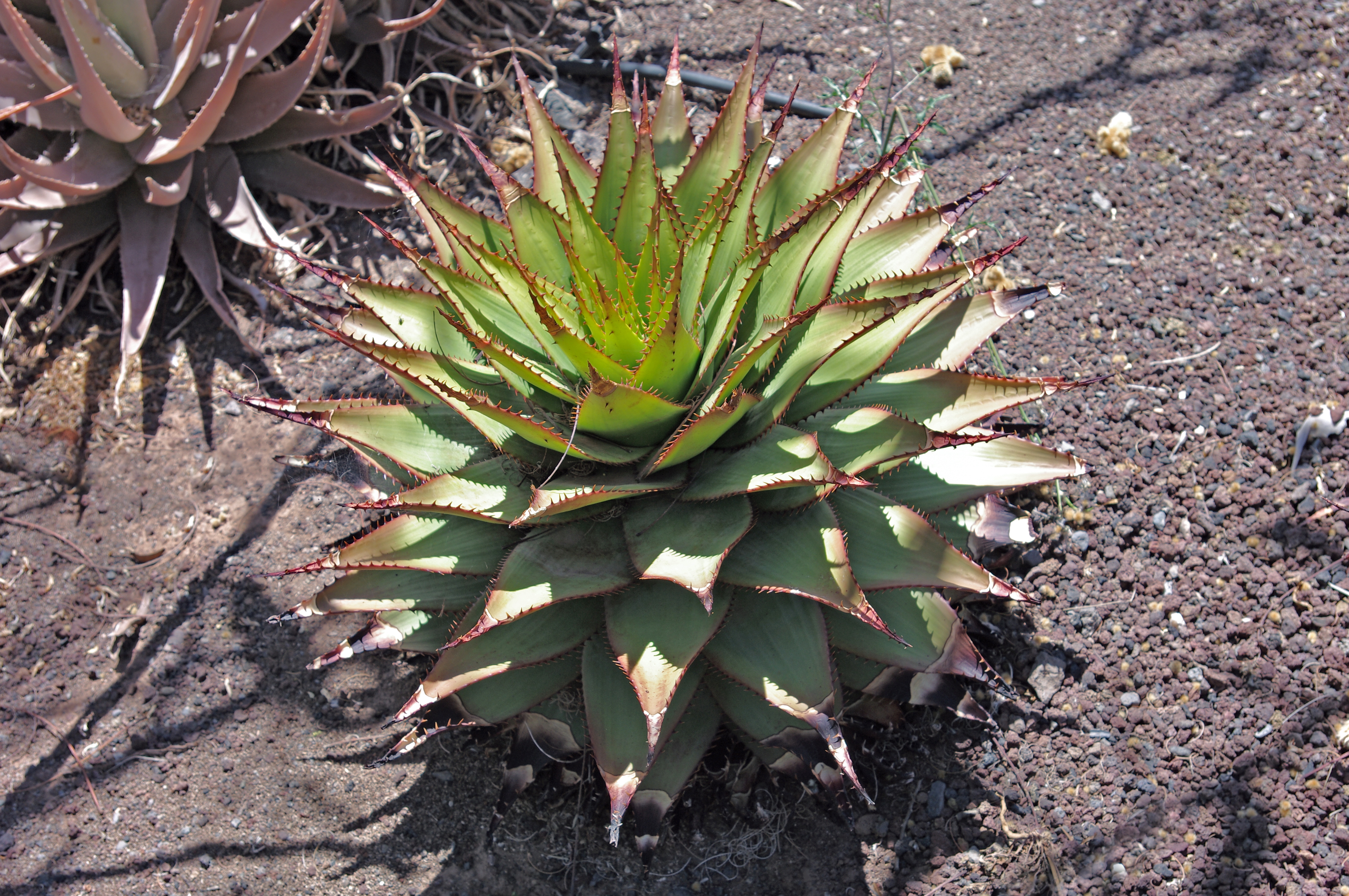 Aloe broomii at the Oasis Park Fuerteventura